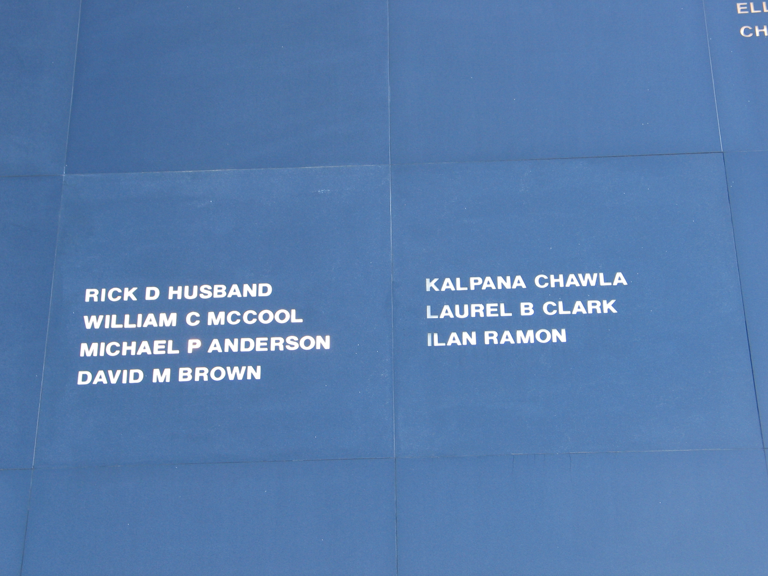 Astronaut Memorial Foundation's Space Mirror - Closeup of STS-107 names